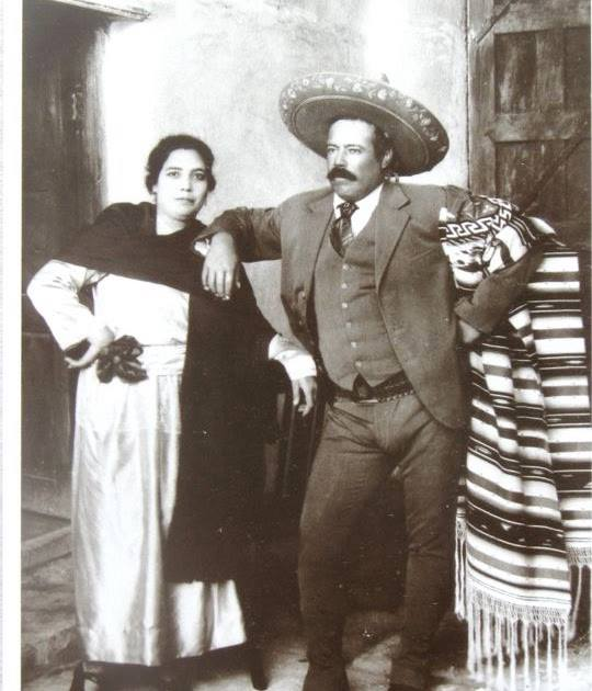 Villa and his wife shortly before his assassination